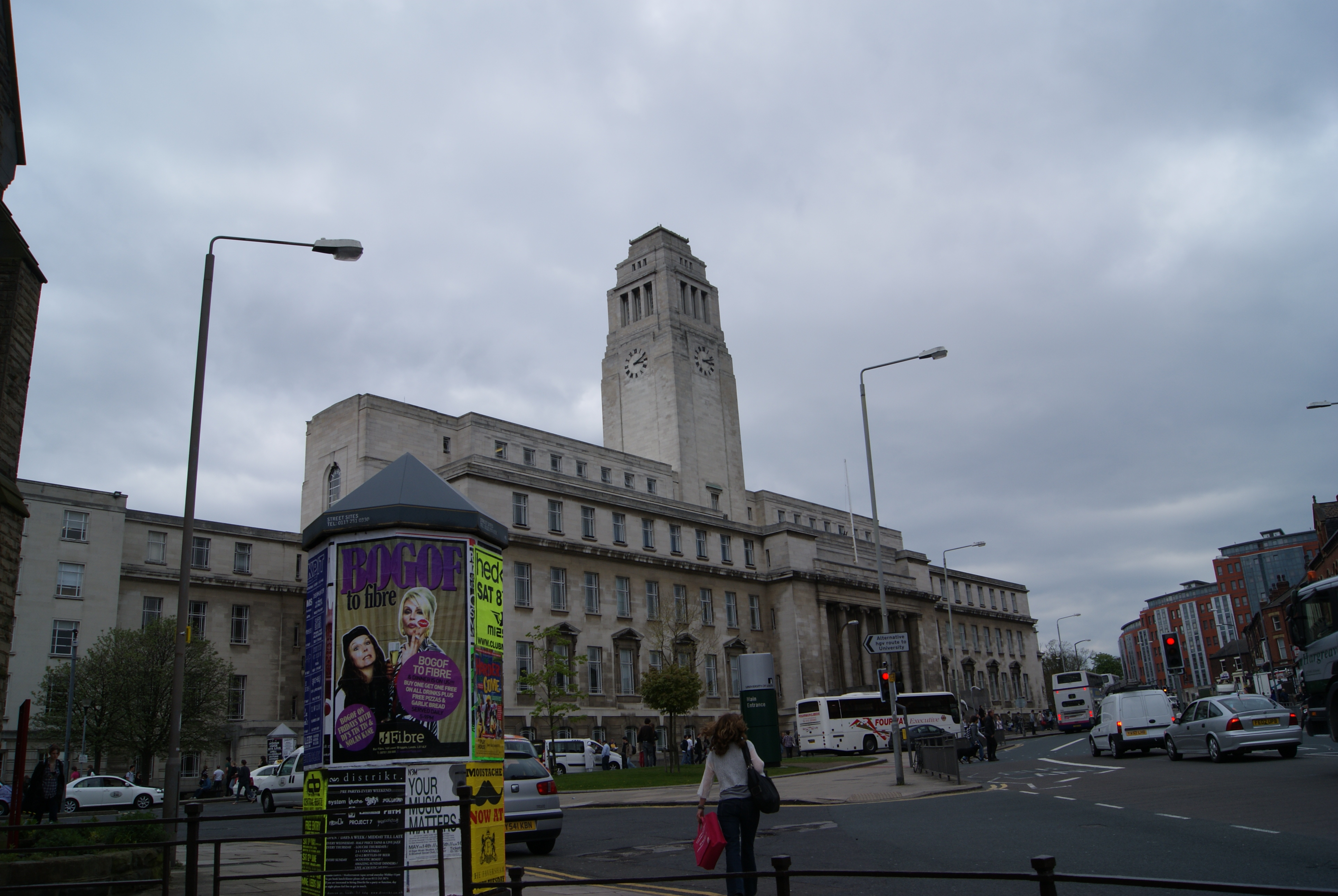 The Parkinson Building at the University of Leeds. The junction of Woodhouse Lane (main road to right) and Cavendish Road (minor road to left) can be seen. Taken on the afternoon of Tuesday the 4th of May 2010.